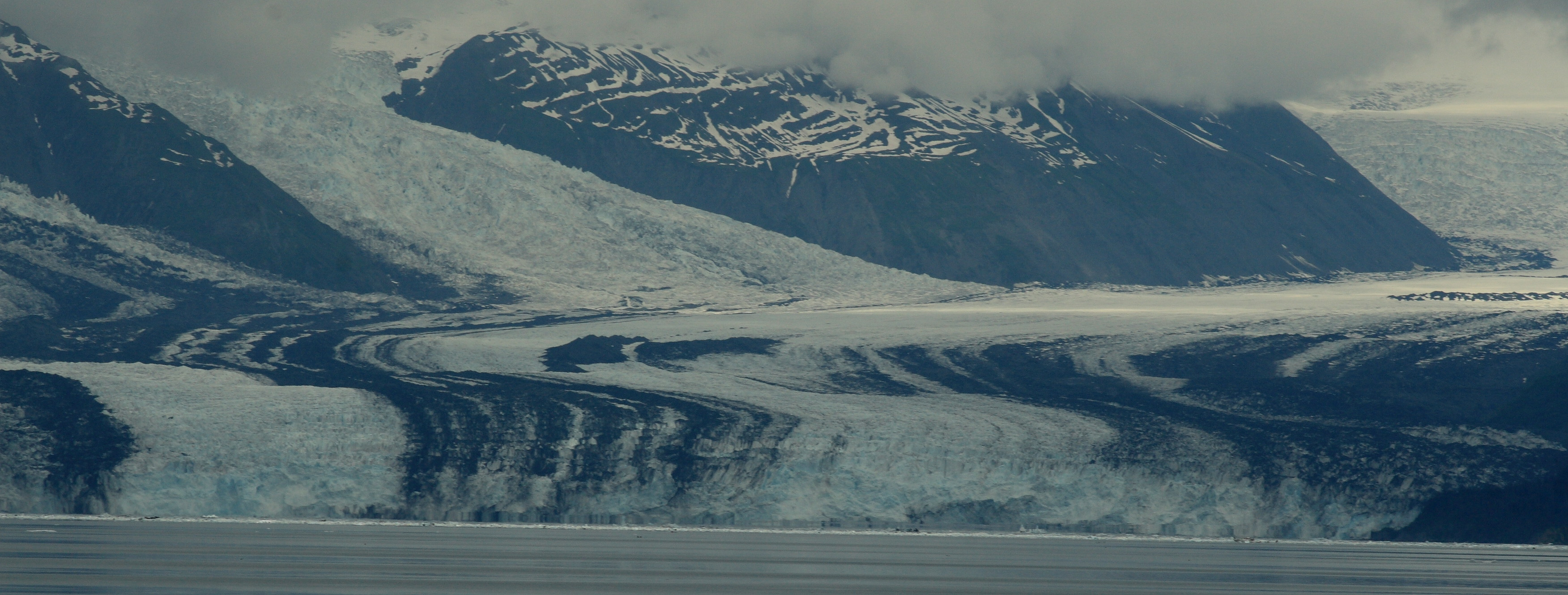 Taken on a glacier cruise out on Prince William Sound out of Whittier, Alaska in July 2008.